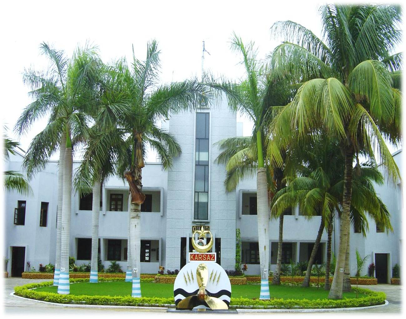 The Administrative Block of PNS KARSAZ.